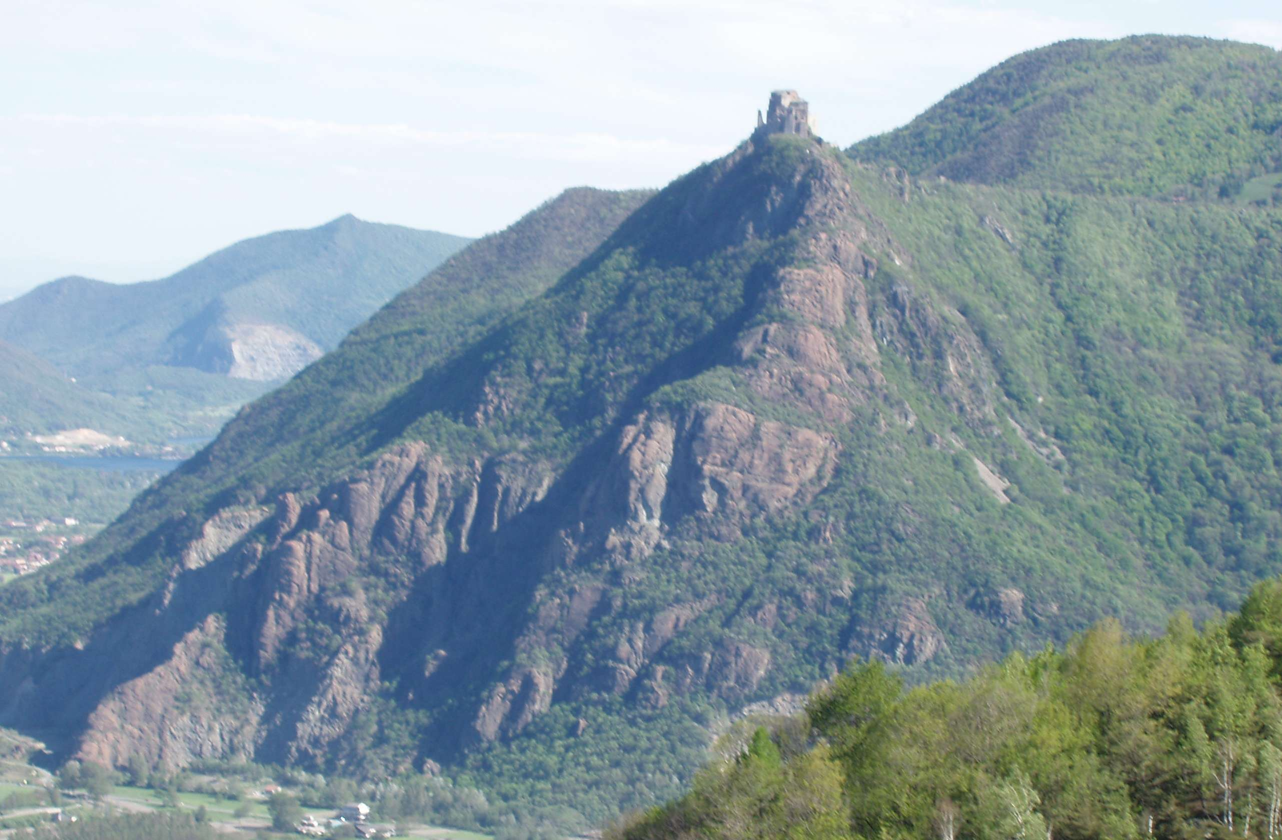 Mount Pirchiriano, on the left Mount Pietraborga (Piedmont, Italy)